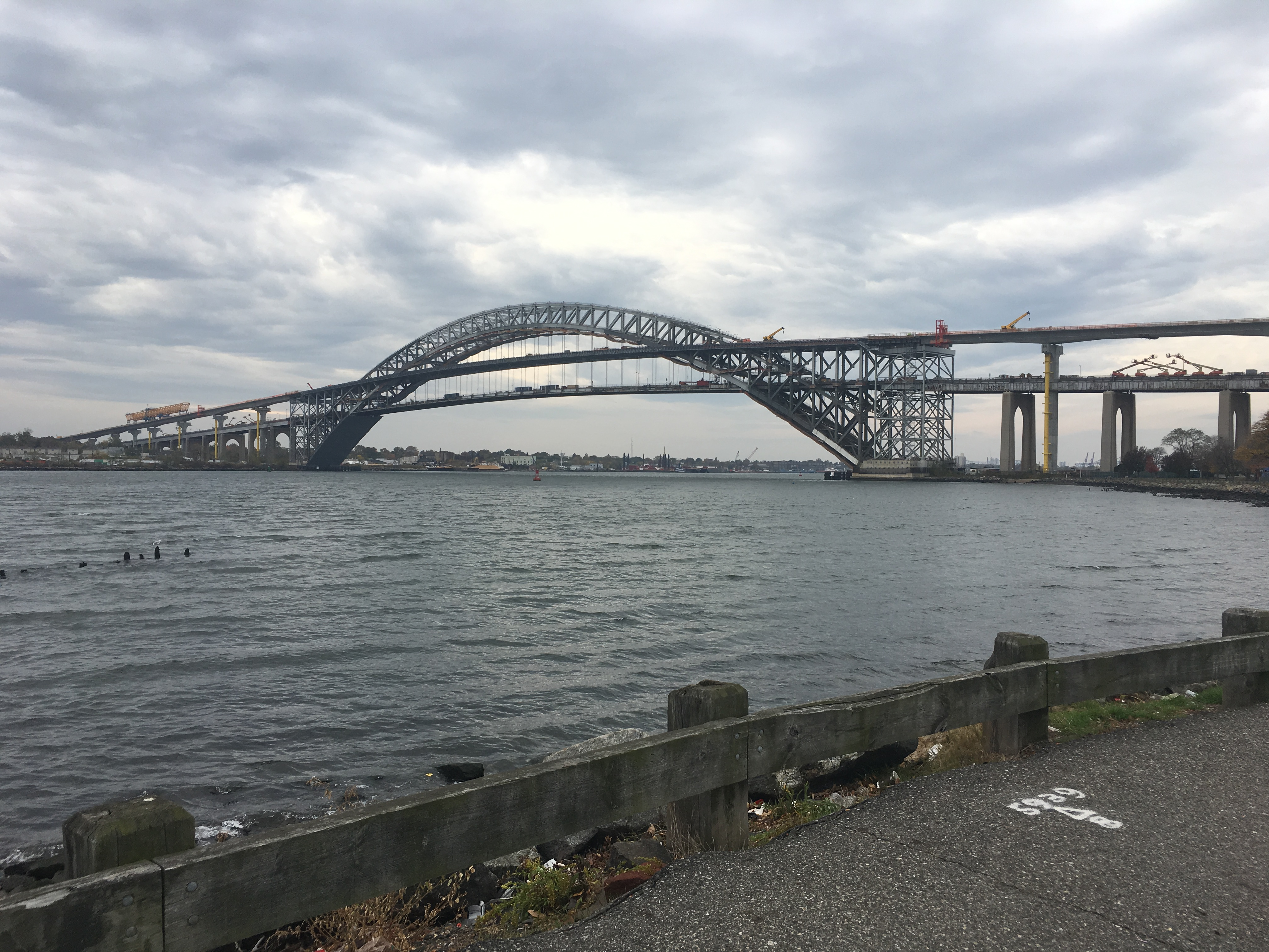 The Bayonne Bridge with two decks. The upper roadway, under construction, will replace the lower roadway when operational, and the lower roadway will then be removed, allowing larger neopanamax ships to pass under. View facing west from Kill Van Kull Park in Bayonne, New Jersey.